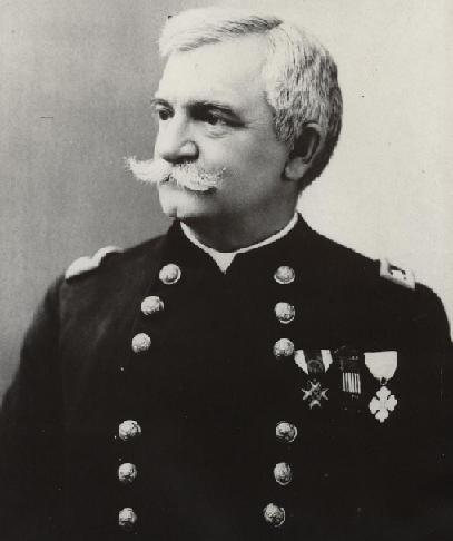 Theodore Safford Peck as Adjutant General of the Vermont National Guard